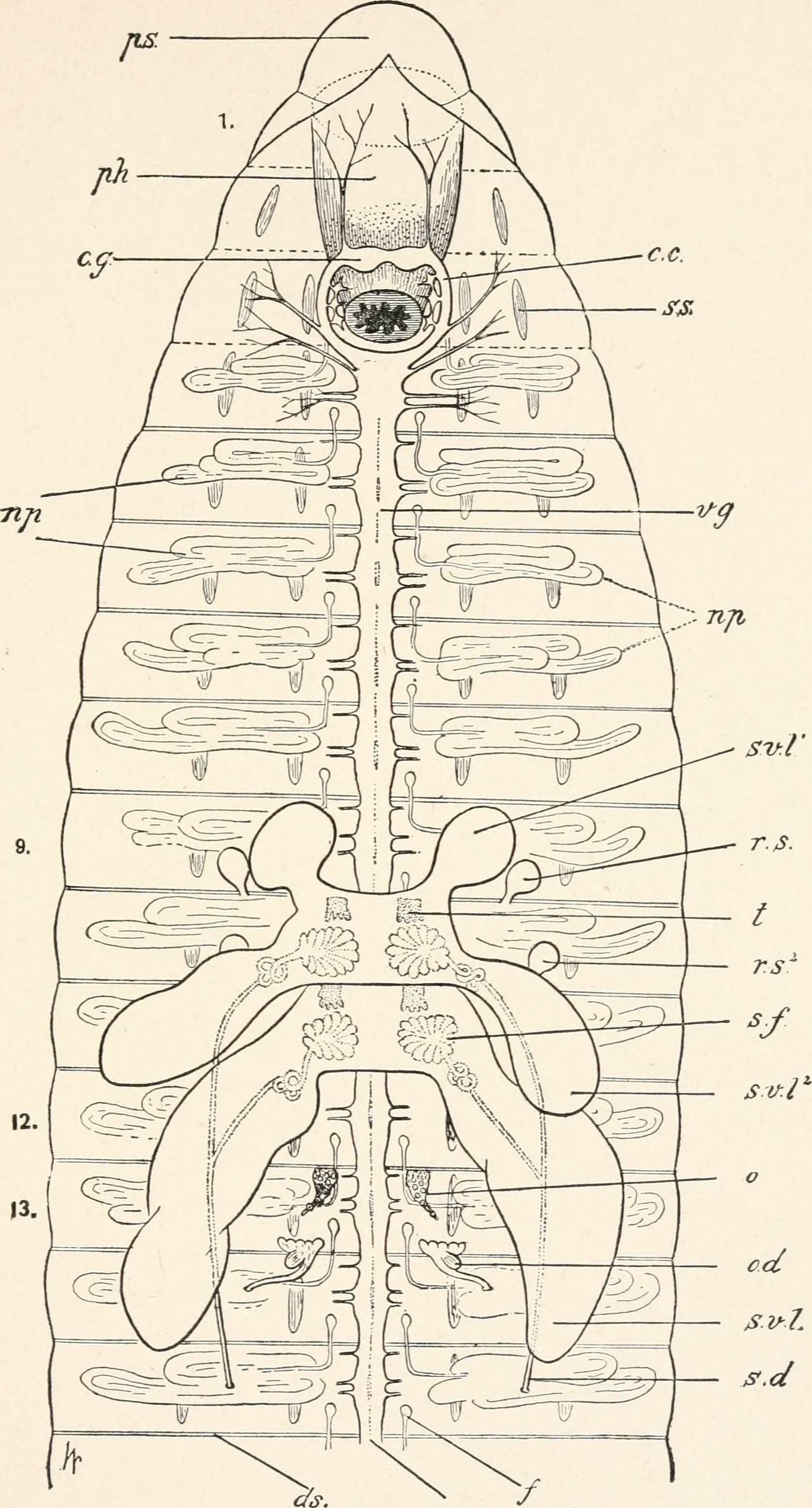 Title: Biology Year: (c1917) ((c10s) Authors: Calkins, Gary N. (Gary Nathan), b. 1869 Subjects: Biology Publisher: New York, H. Holt and company Text Appearing Before Image: NERVOUS SYSTEM OF THE EARTHWORM 151 ns. Text Appearing After Image: vn.c. FIG. 60.—Anterior part of the worm laid open to show the ventral organs, c.c., Circum-oesophageal commissures; e.g., cerebral ganglia; ds., dissepiment; /, funnel of nephridium; np, nephridium; o, ovary; od, oviduct; ph, pharynx; ps, prostomium; r.s., seminal receptacle; s.d., sperm duct; s.f., sperm funnel; s.v.L, lateral seminal vesicle; t, testis; v.g. and v.n.c., ventral nerve cord. (From Sedgwick and Wilson.)